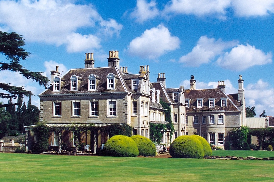 Witham Hall near Bourne, Lincolnshire